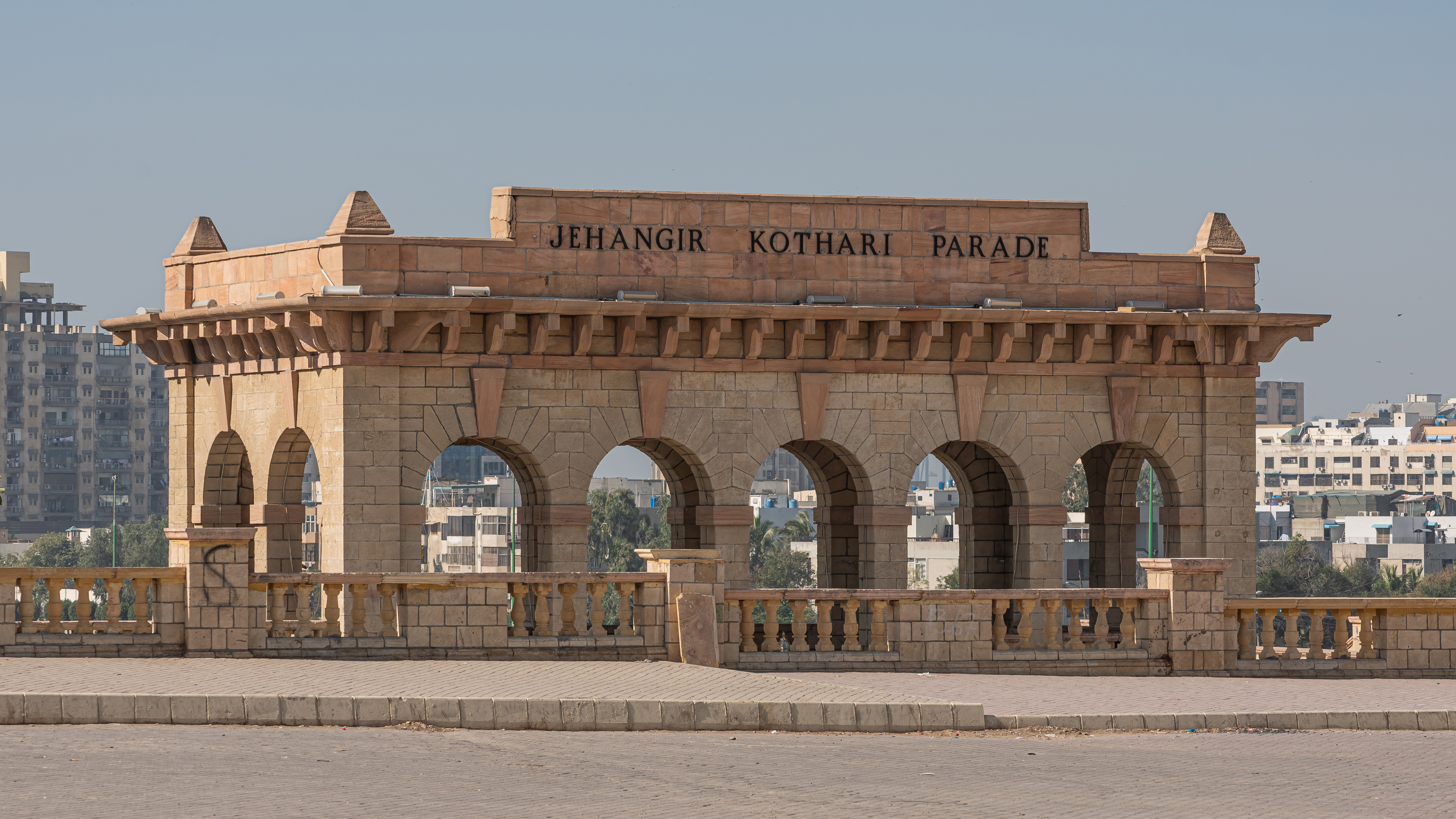 Jehangir Kothari Pavilion at the Bagh Ibne Qasim in Karachi, Pakistan